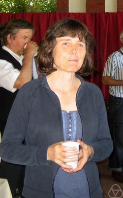 Claire Voisin, French mathematician, at the 60th Birthday conference of Jean Pierre Bourguignon in Bures-sur-Yvette.